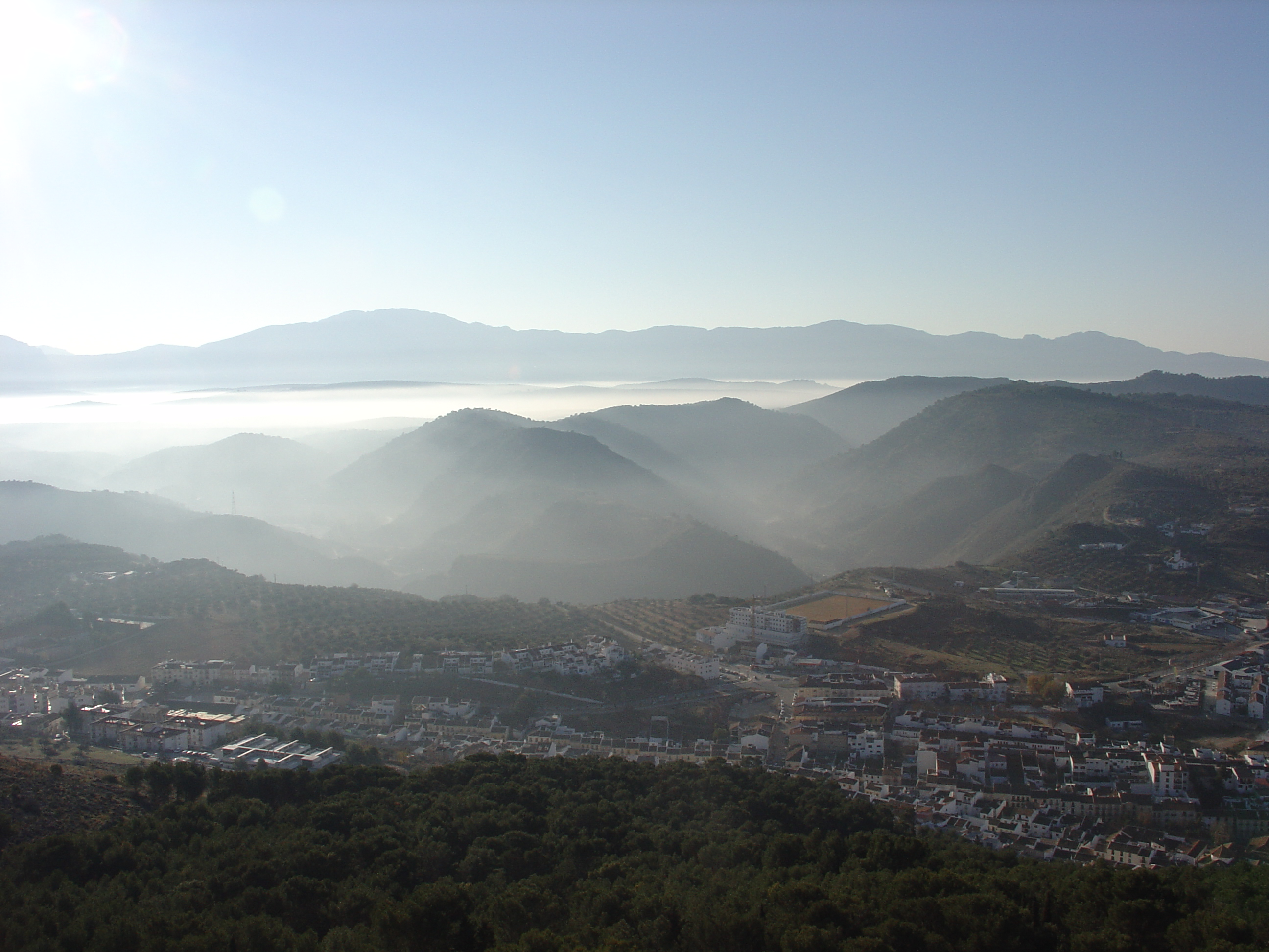 Sight of Archidona.